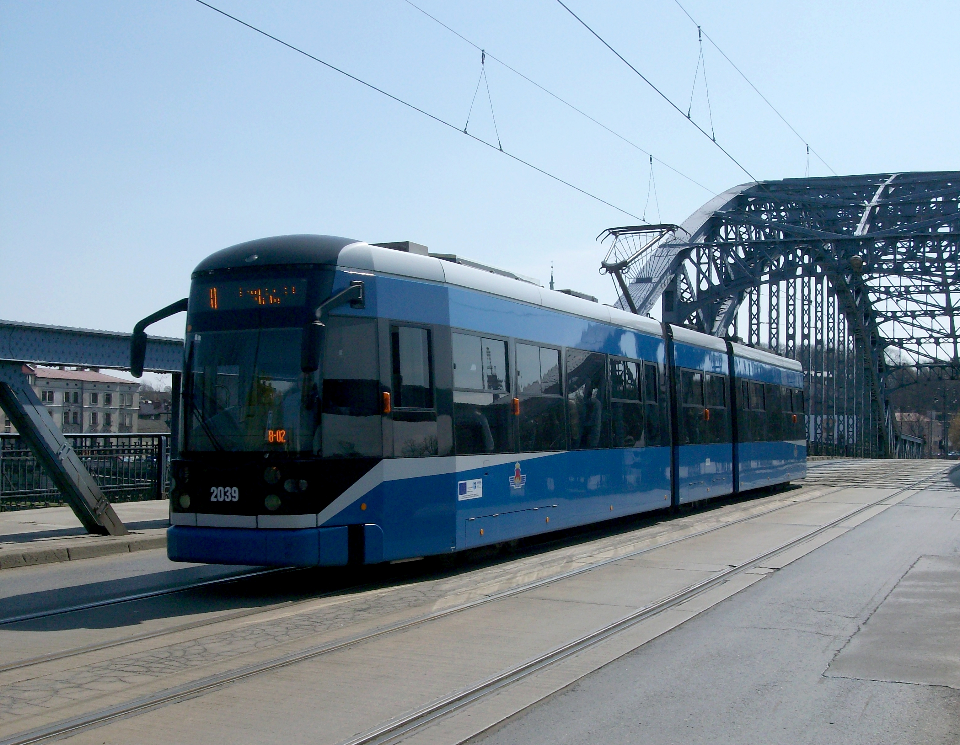 NGT6-2, Kracow